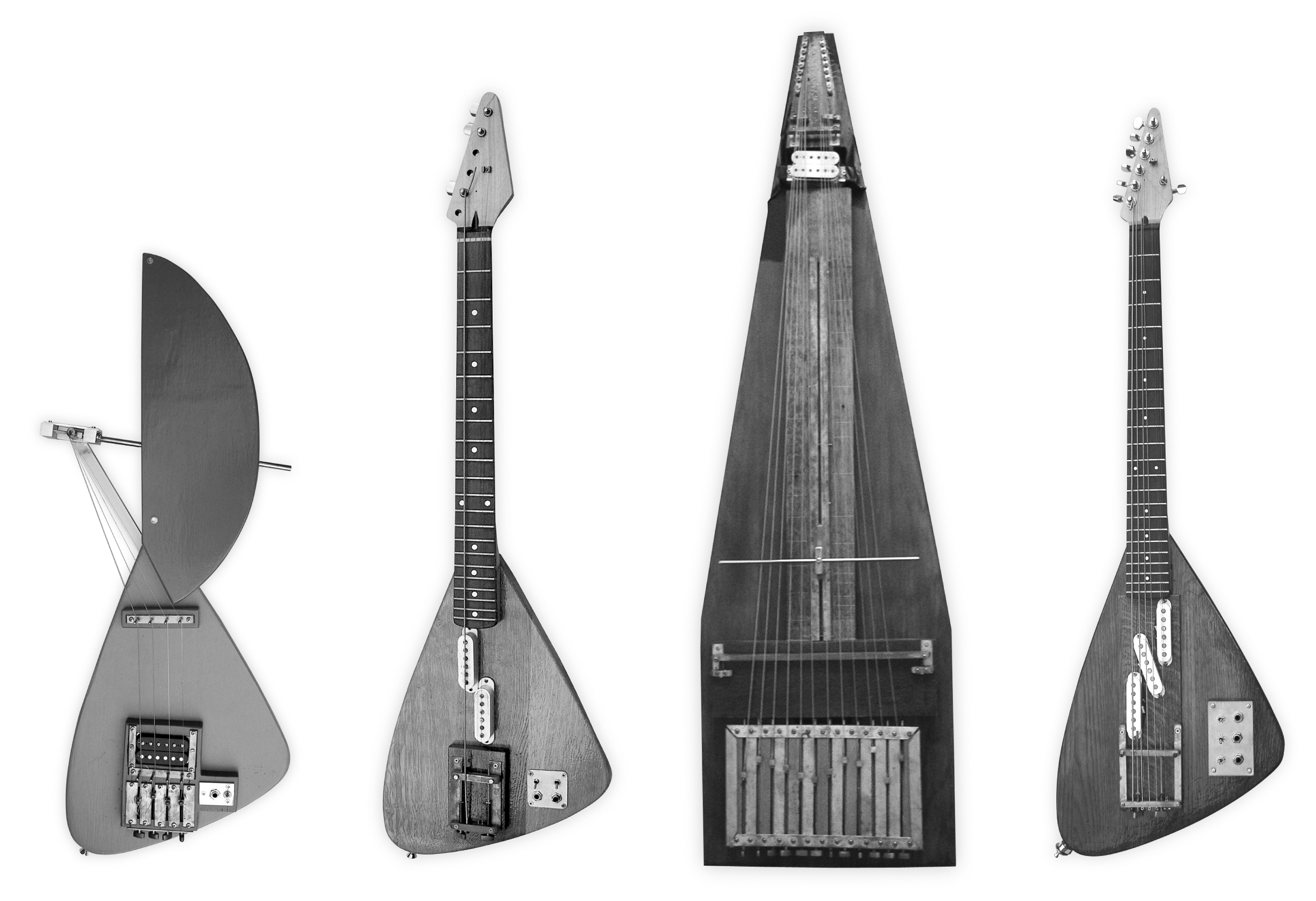 These are my guitars Y.L. 26-3-'07